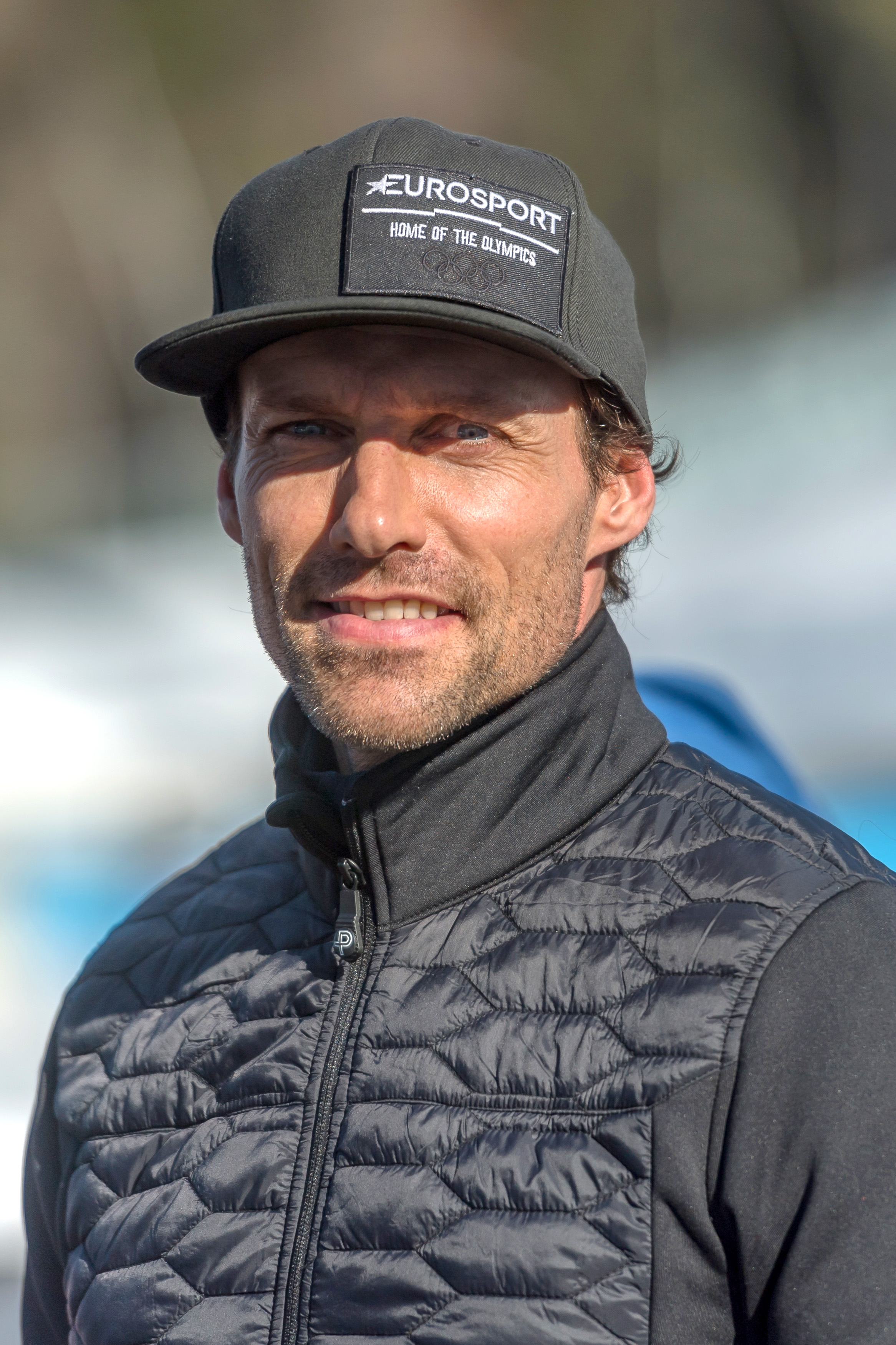 Seefeld, February 27, 2019: FIS Nordic World Ski Championships, Ski Jumping Ladies HS 109.